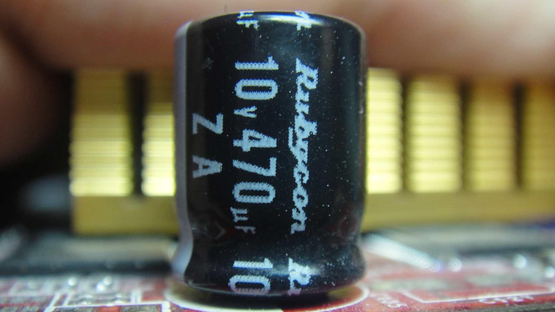 Condansator (cylinder)